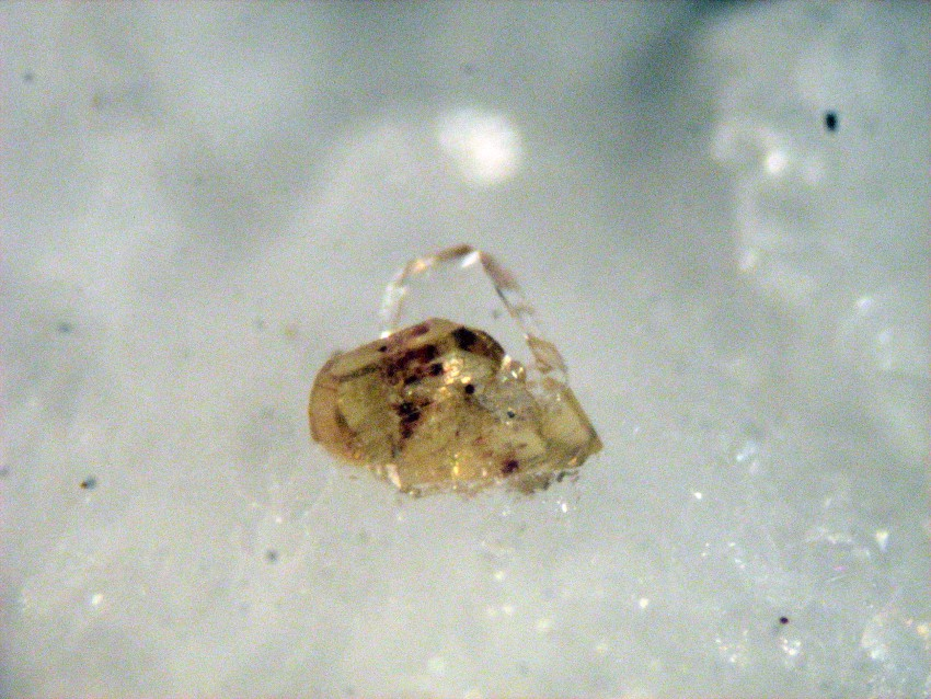 Size crystal mm.0,45 very nice. Collection and photo Edoardo Mazzola. From: Alpe Rosso, Orcesco, Druogno, Vigezzo Valley, Ossola Valley, Verbano-Cusio-Ossola Province, Piedmont, Italy